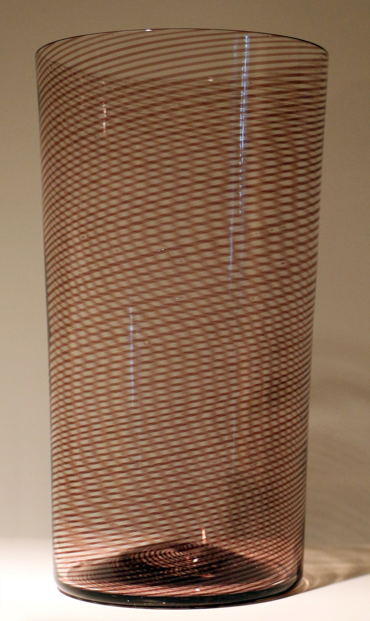 Glassware in the Indianapolis Museum of Art